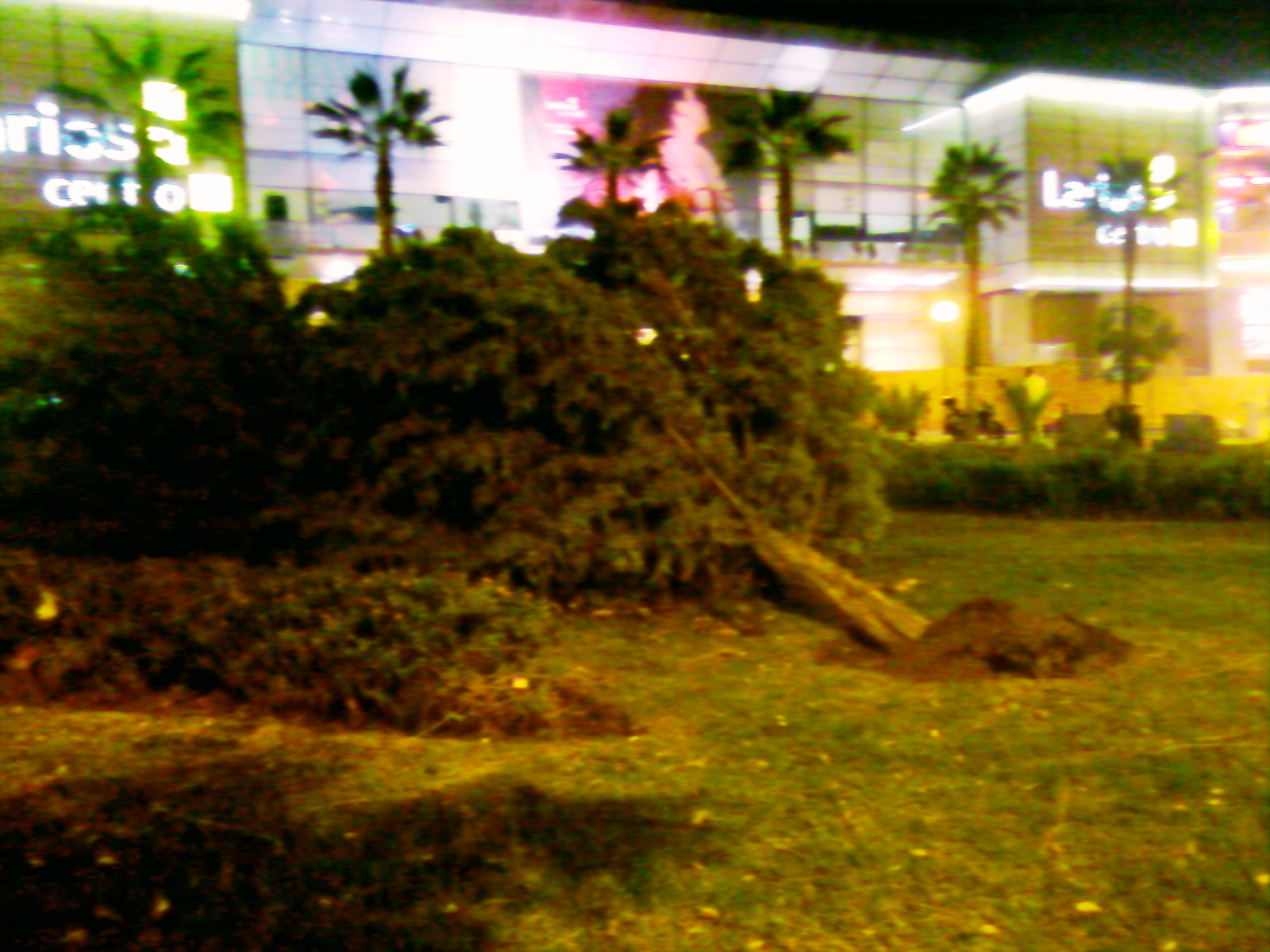 Tree after tornado in 2009 (Spain)